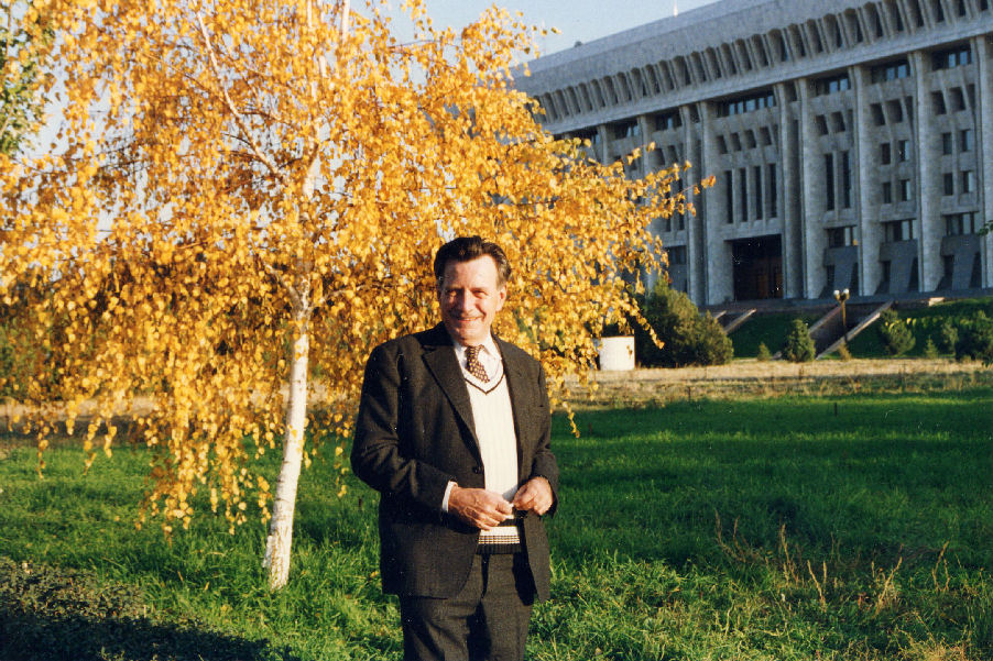 Andrei Filotti, in front of the Kyrgyzstanian Presidency building, in Bishkek.